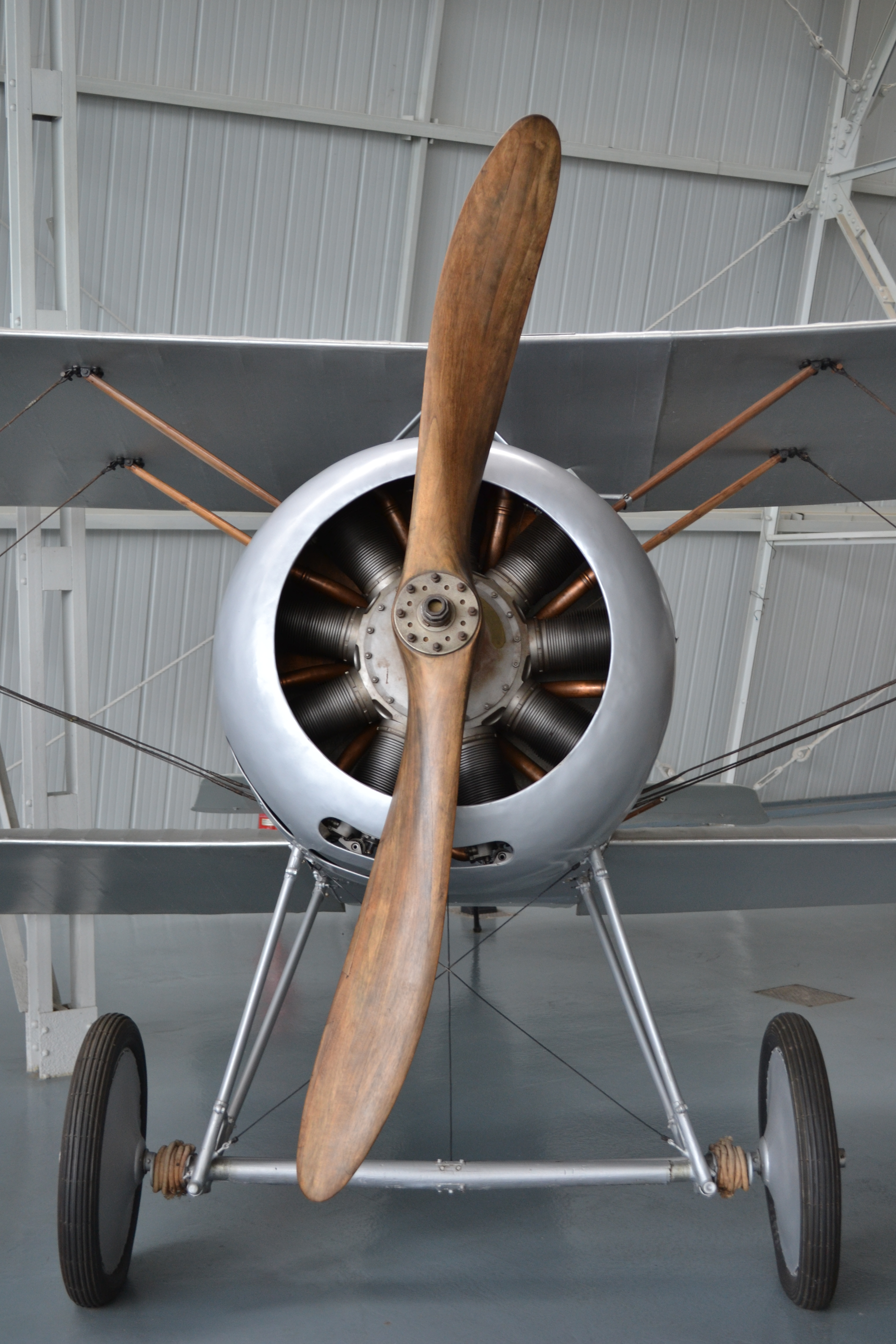 Front view of Italian flying ace Flavio Torello Baracchini's Macchi-Hanriot HD.1.